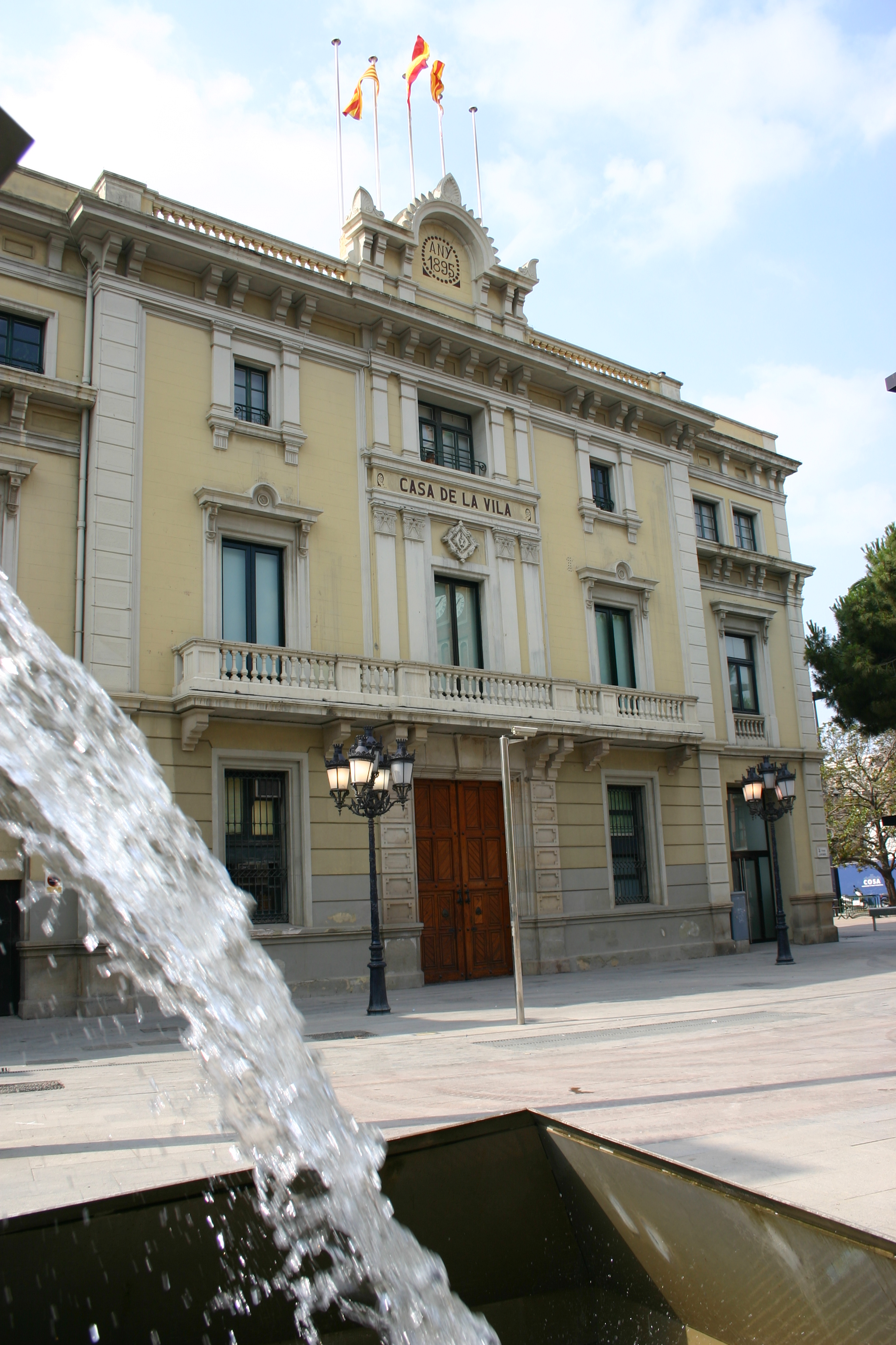 Square of the town council